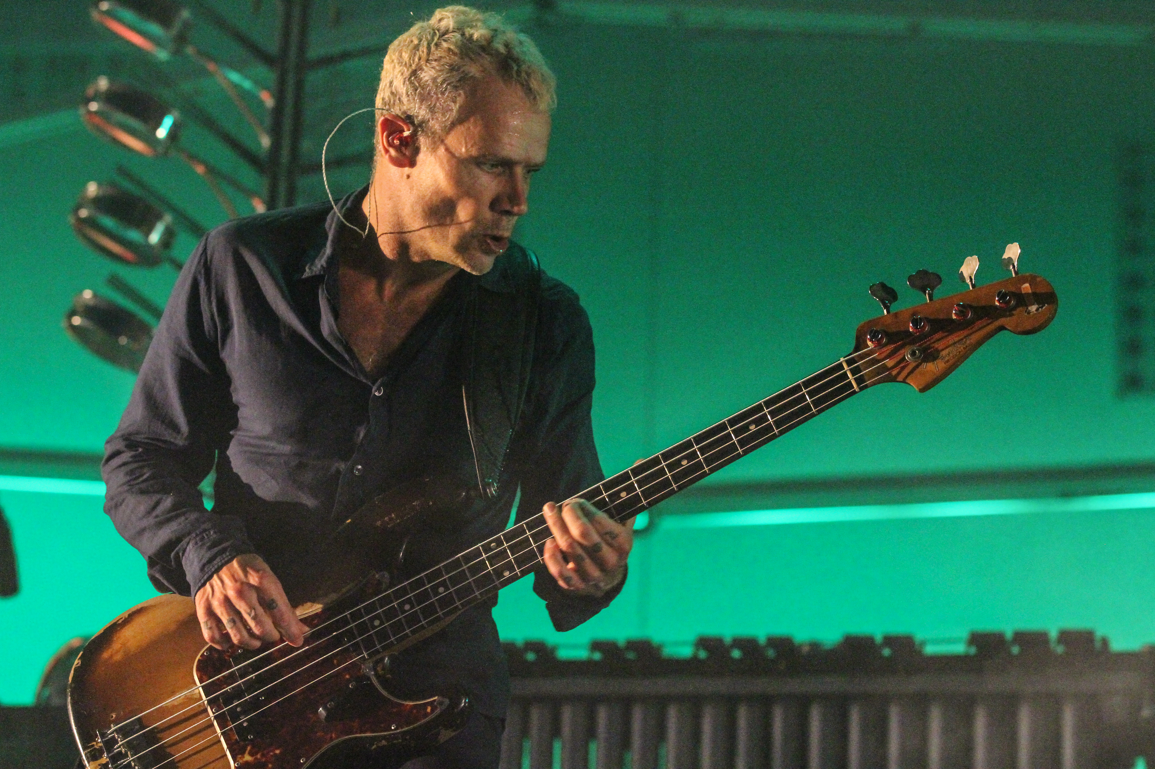 Atoms For Peace performing at Melt! Festival 2013